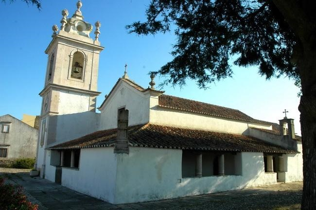 Vista lateral com ênfase no alpendre